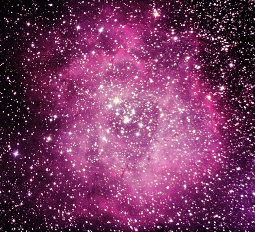 My image of the Rosette nebula / NGC 2244